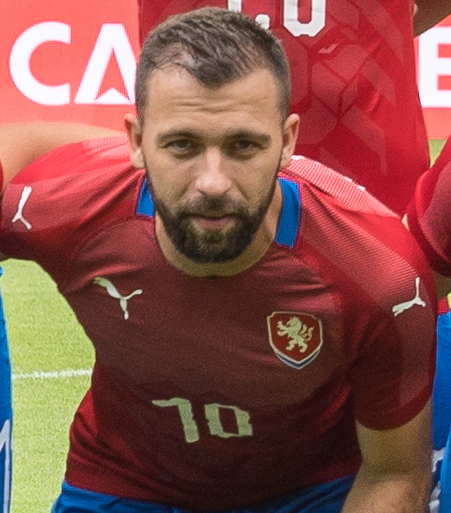 1/6/18St. Poelten, Austria, sports, football, International friendly - Australia vs Czech Republic. Image shows the team of Czech Republic.